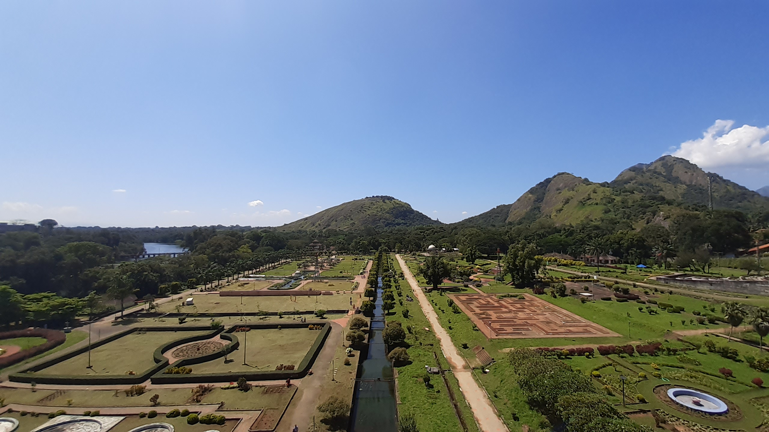 Malampuzha dam project is an irrigation project of Govt. of Kerala.